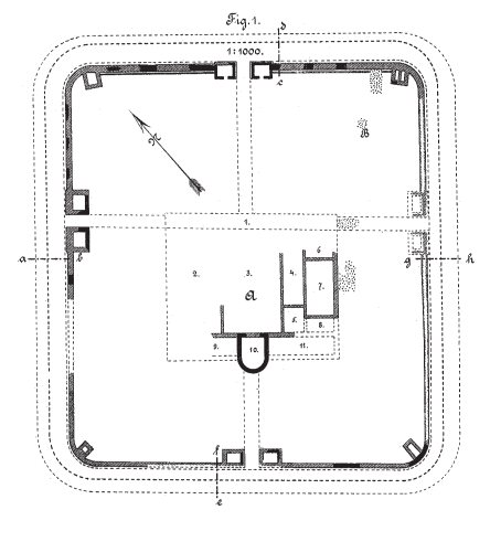 Plan of the Roman Upper German Rhaetian Limes numerus fort at Wörth am Main as excavated by Wilhelm Conrady of the RLK in 1887